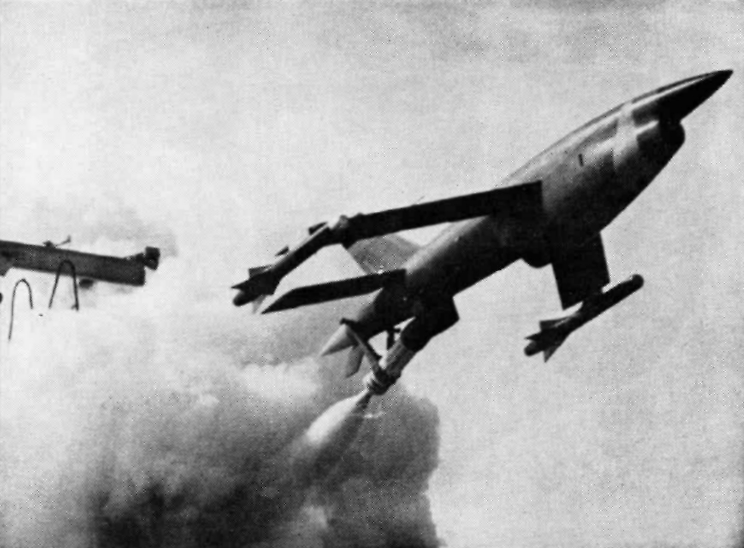 A U.S. Navy Ryan BQM-34A Firebee is launched at Naval Air Facility Naha, Okinawa (Japan), in 1963.